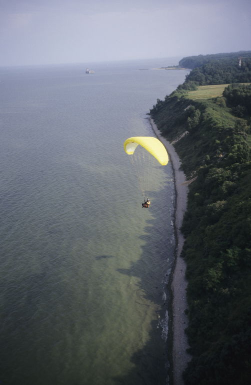 Paraglider soaring over coast